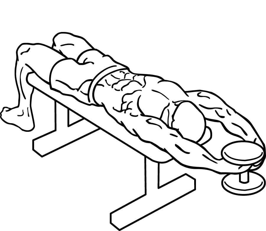 an exercise of upper back